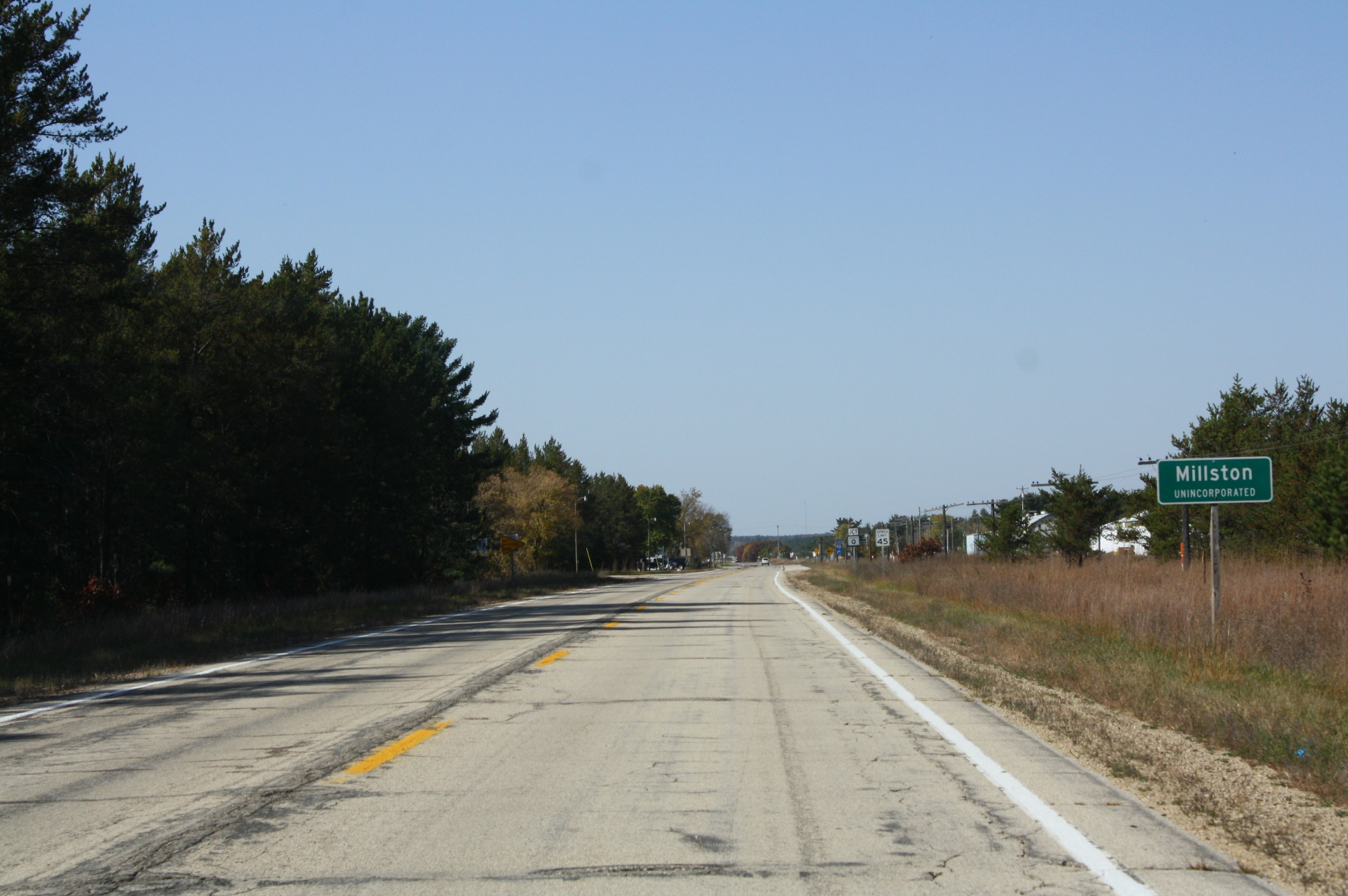 The sign for Millston, Wisconsin on U.S. Route 12. It is part of the Robinson Creek Pines State Natural Area.